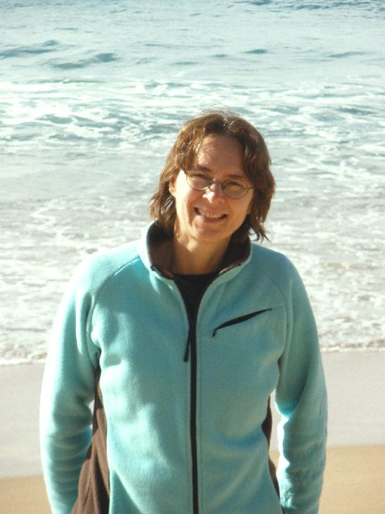 personal photo